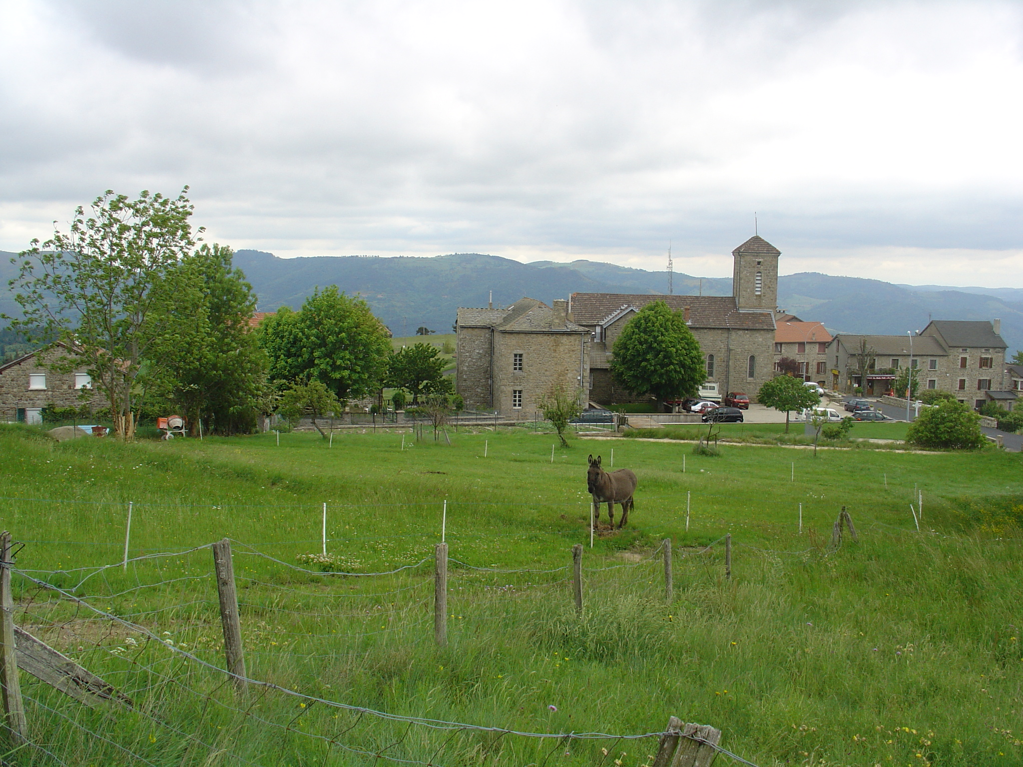 the village of St Jeure d'Andaure